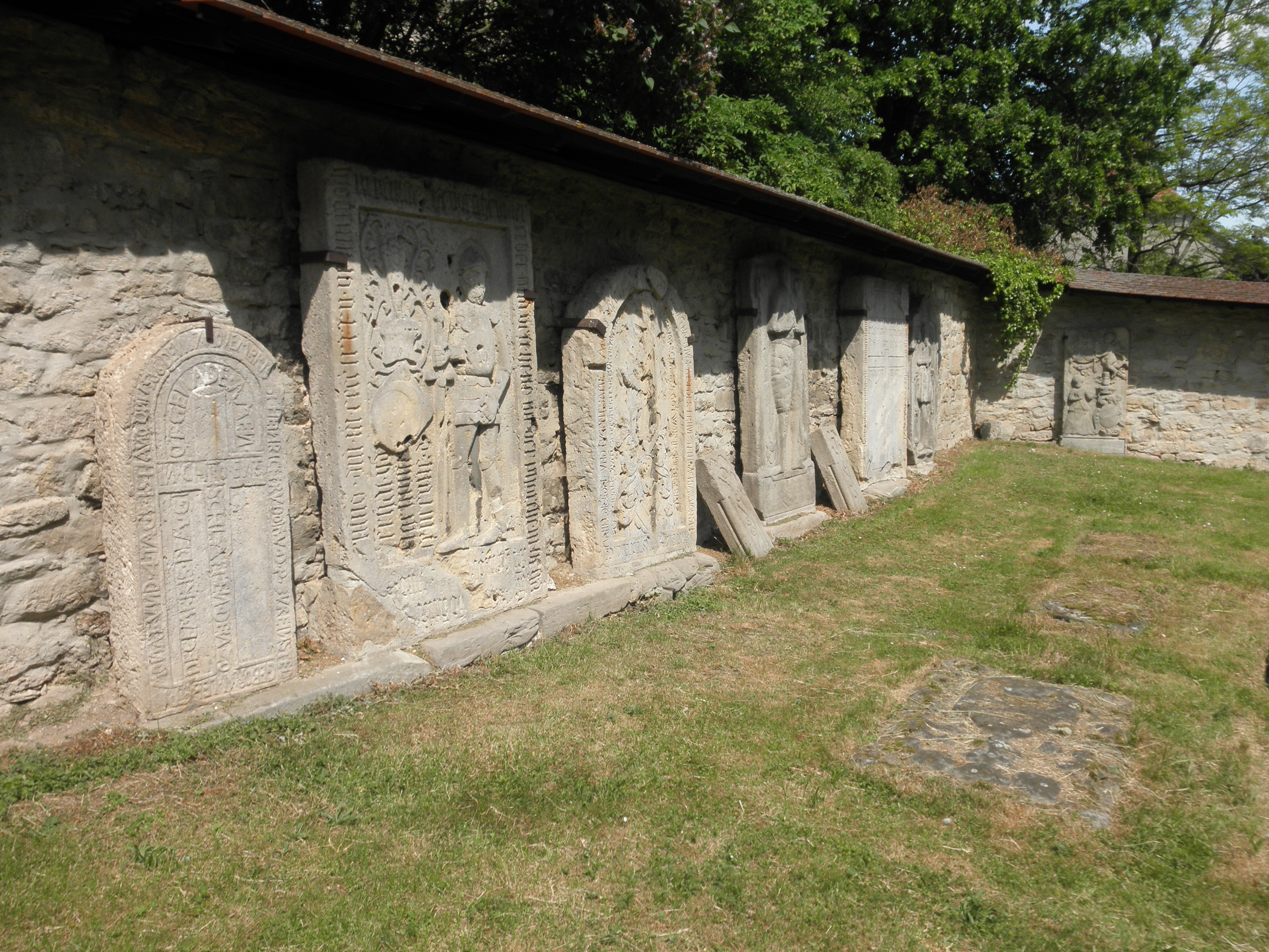 Epitaphs in Reinstädt in Thuringia